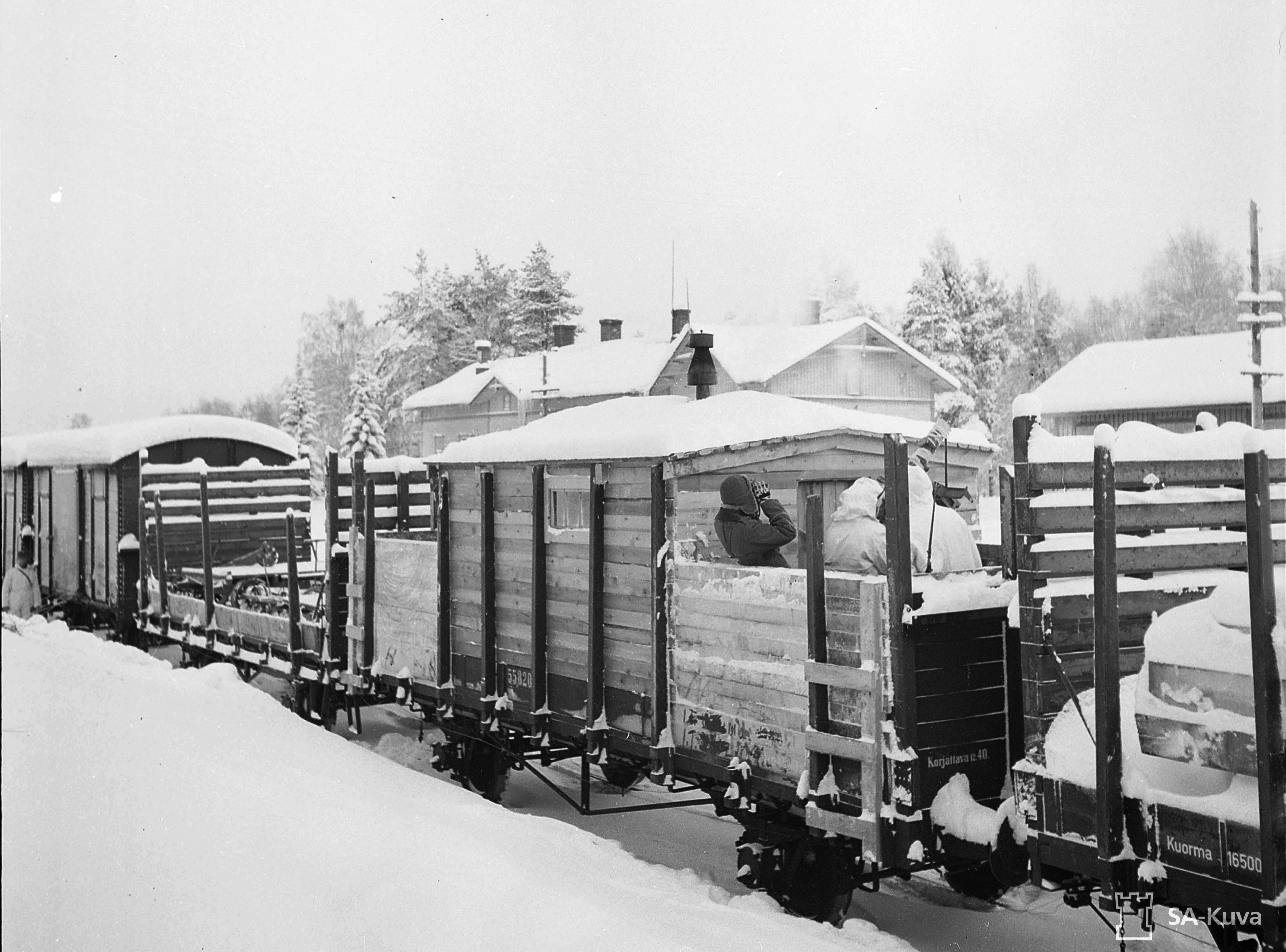 IT-kk-vaunu radankorjausjunassa.